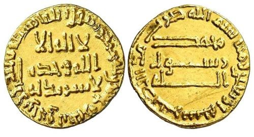 Abbasid Dinar (4.23 g) - Al Mansur - 140 AH / 758 AD